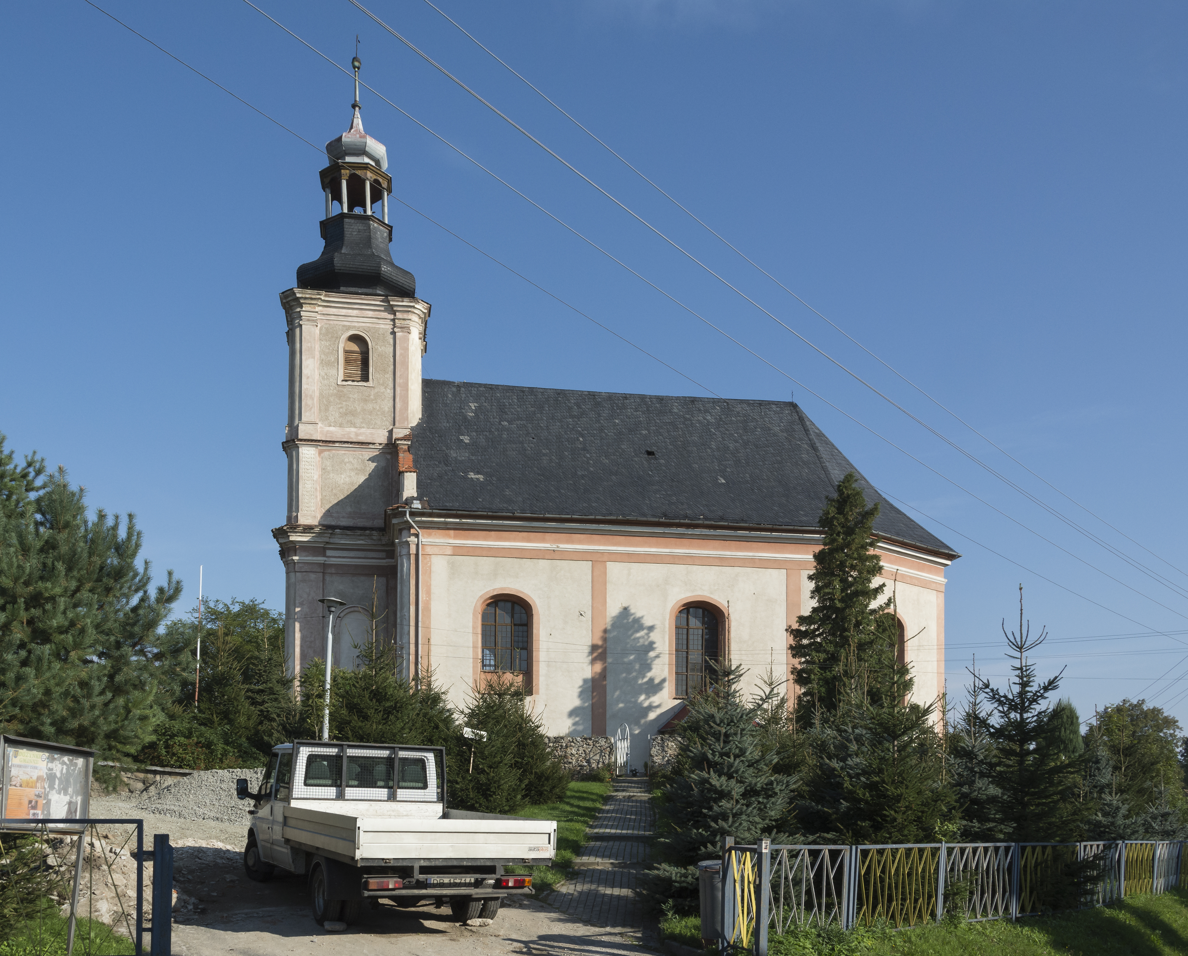 Church of St. Maternus in Sosnowa